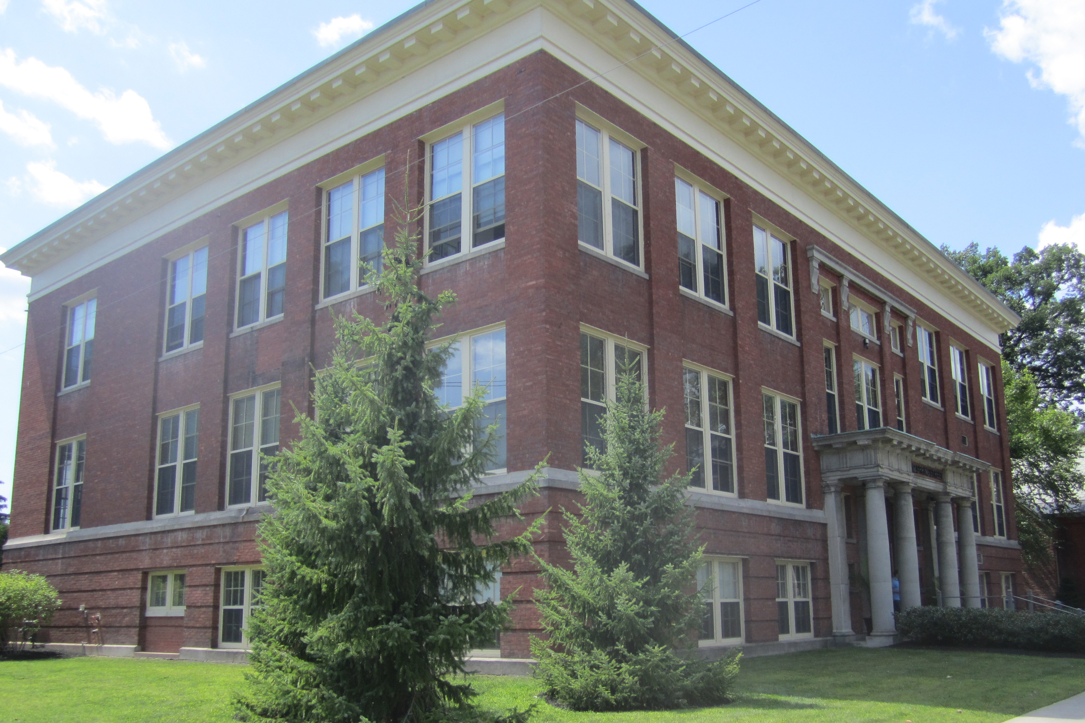 112 Spring St., Saratoga Springs NY. (ca.1900). Former "School #4" designed by Newton Brezee